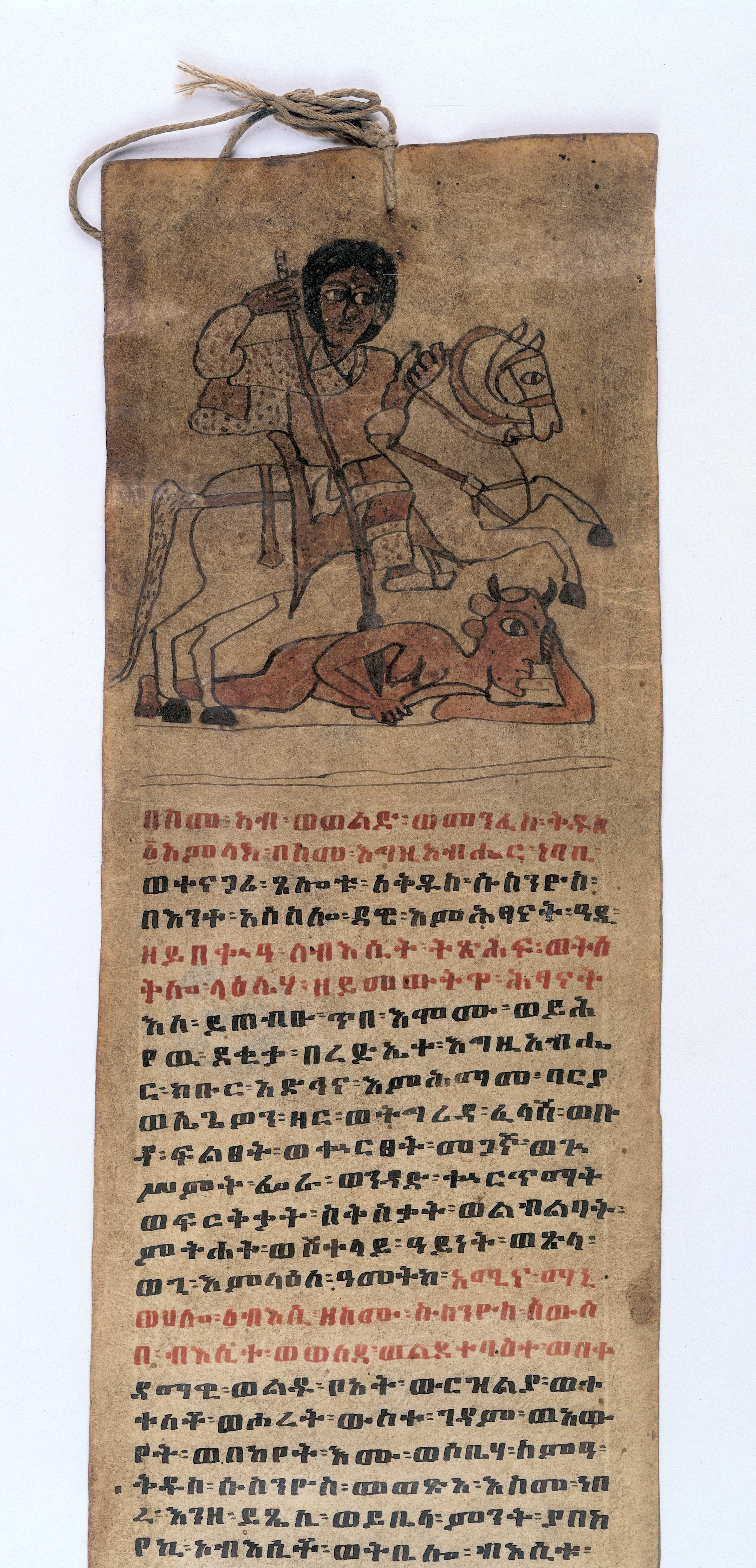 Ethiopian Scroll comprising prayers against various ailments, including chest pains, the expulsion of evil spirits causing sickness and the protection of suckling infants. This illustration shows Susenyos spearing the demon, a popular motif in Ethiopean art similar to St George slaying the dragon. Asian Collection